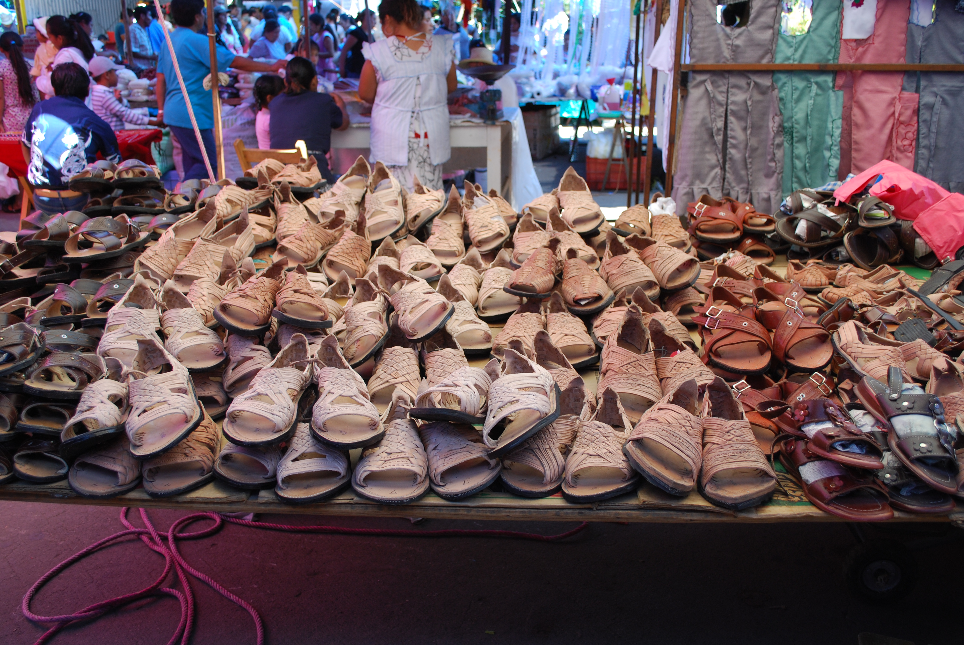 Huaraches (sandals) for sale at the Thursday weekly market in Zaachila, Oaxaca, Mexico